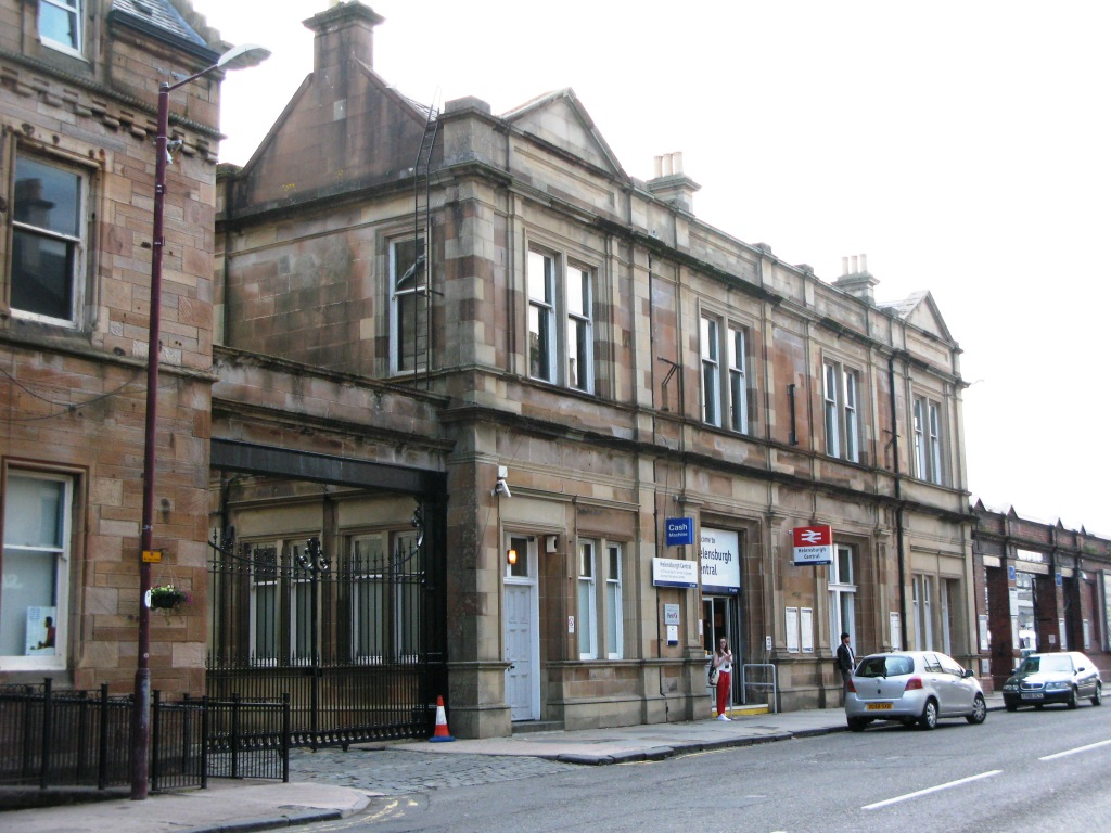 Helensbugh Central station is the western terminus of the North Clyde Line in Scotland.